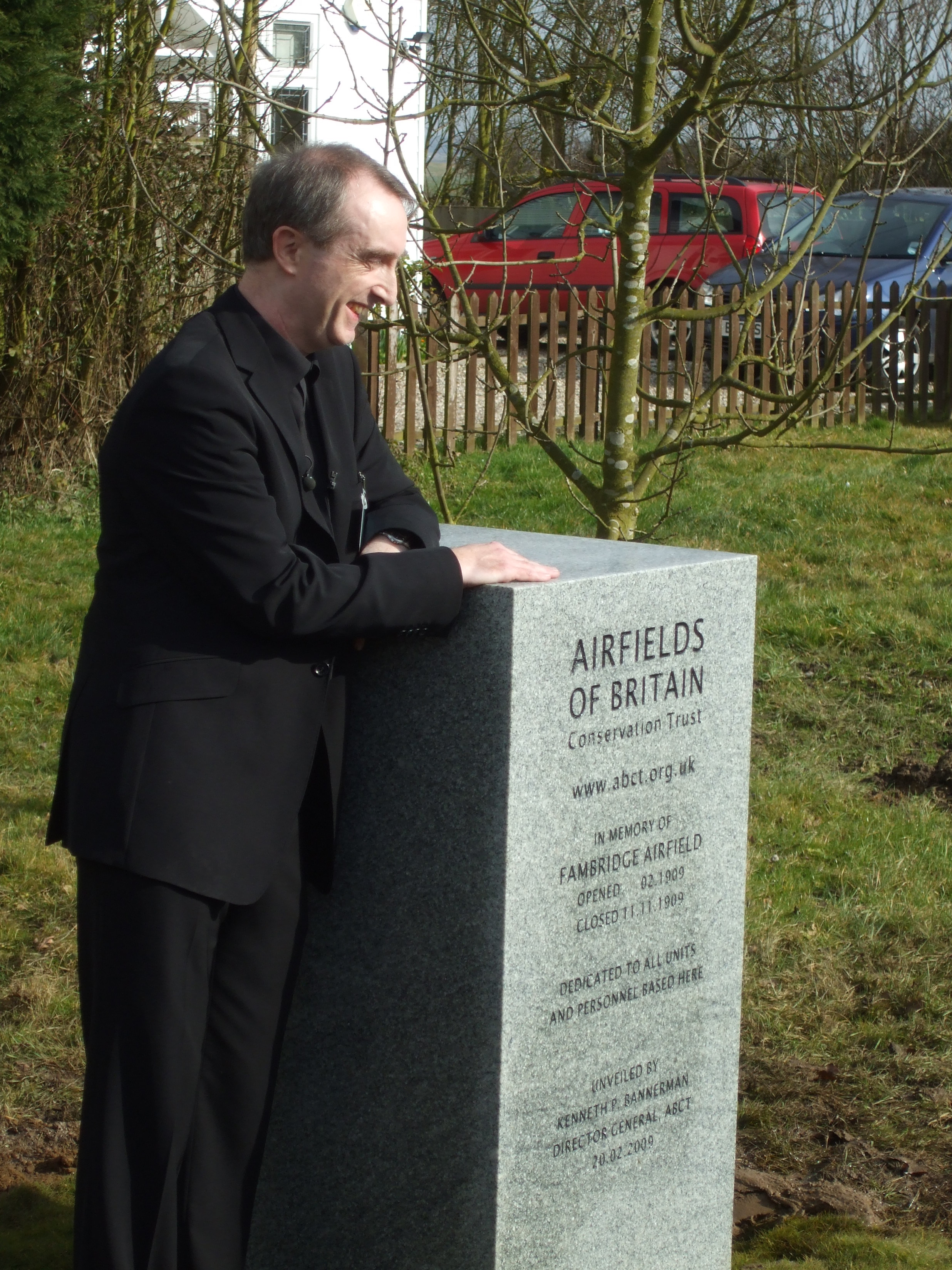 The Director General of The Airfields of Britain Conservation Trust unveiling a memorial to the first airfield in Great Britain in 1909. The airfield has been replaced by houses.